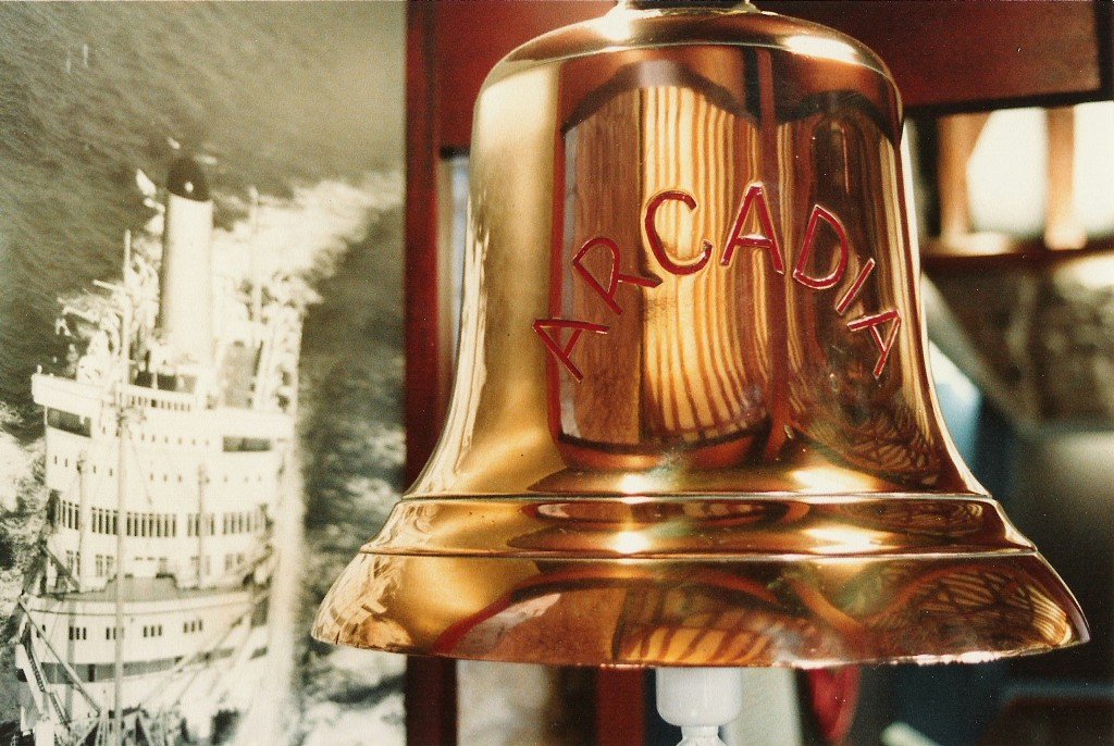 ss Arcadia's bell Southampton Maritime Museum 1984 Photo by Paul Dashwood